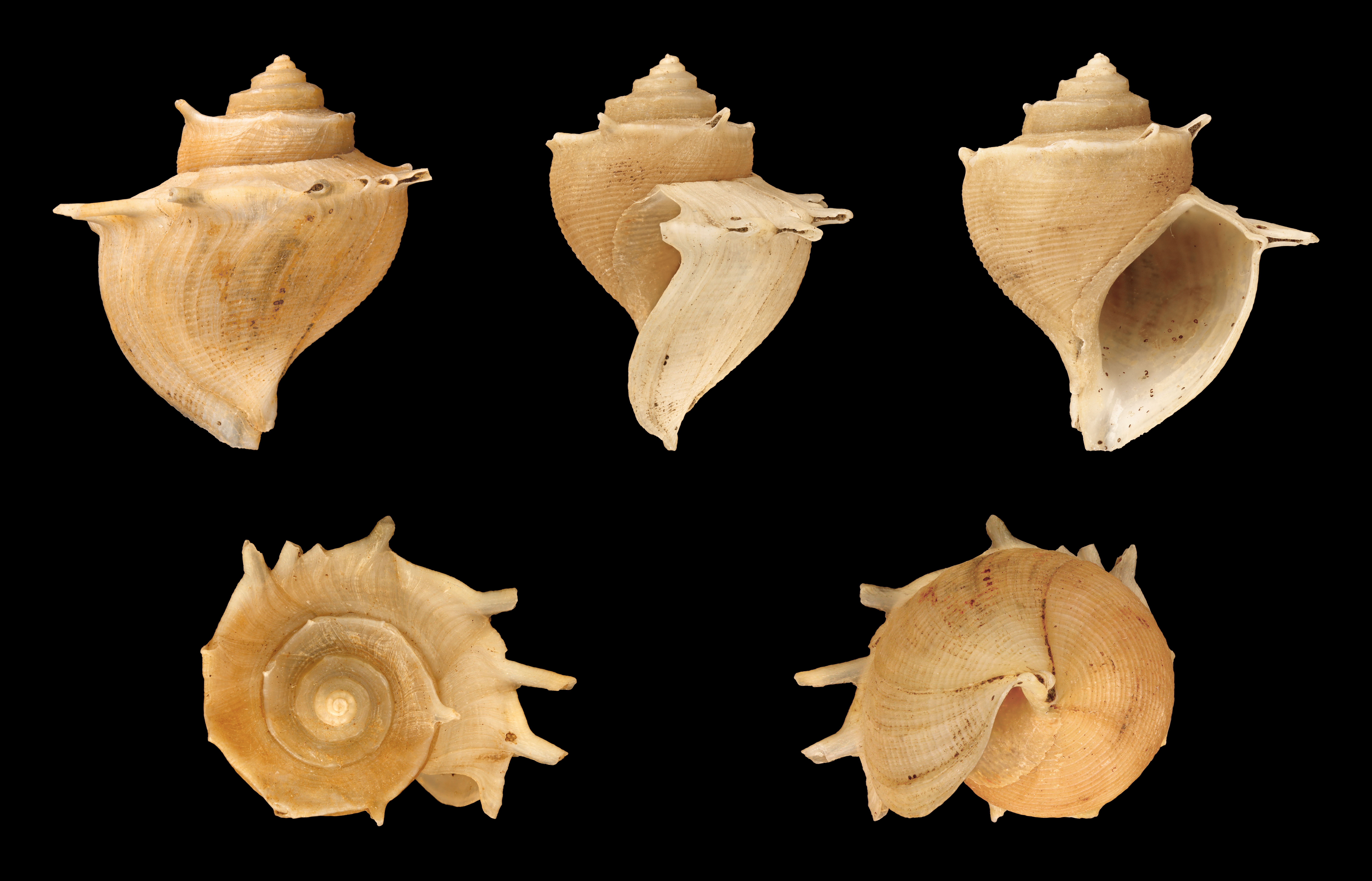 Length 3.3 cm; Originating from the Lake Tanganyika at Kigoma, Tanganyika; Shell of own collection, therefore not geocoded. Dorsal, lateral (right side), ventral, back, and front view.